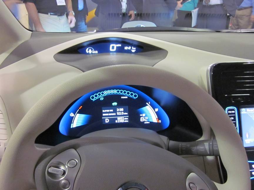 Dashboard of the Nissan Leaf.